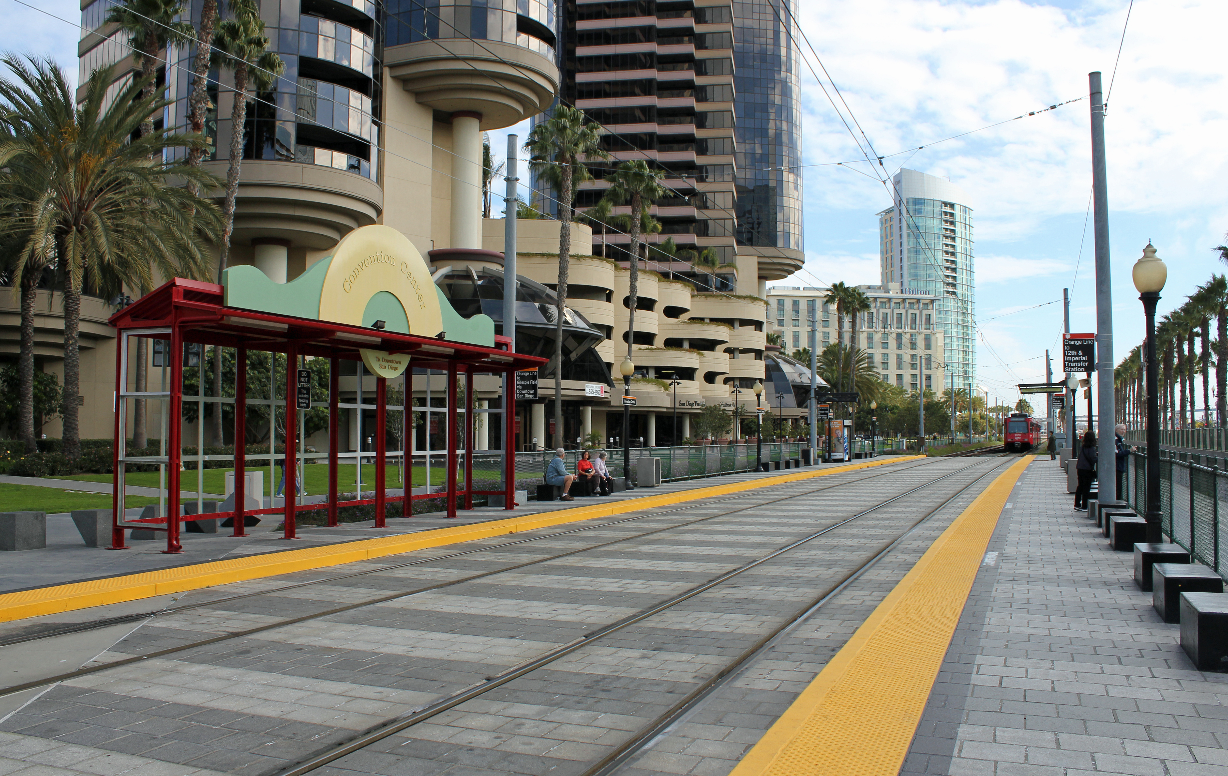 The Convention Center trolley station in San Diego, California.